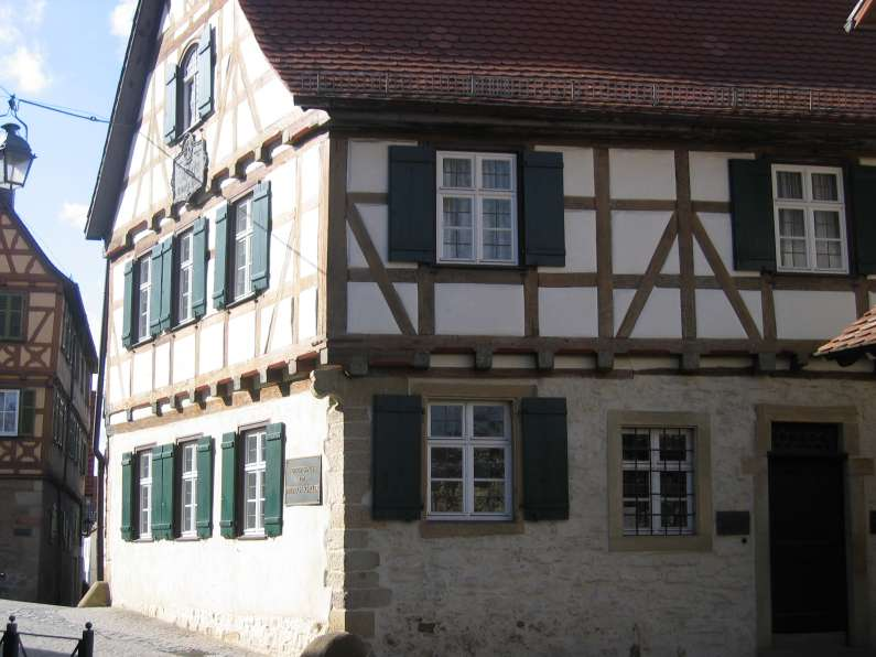 The birth place of Friedrich Schiller in Marbach am Neckar, Germany.